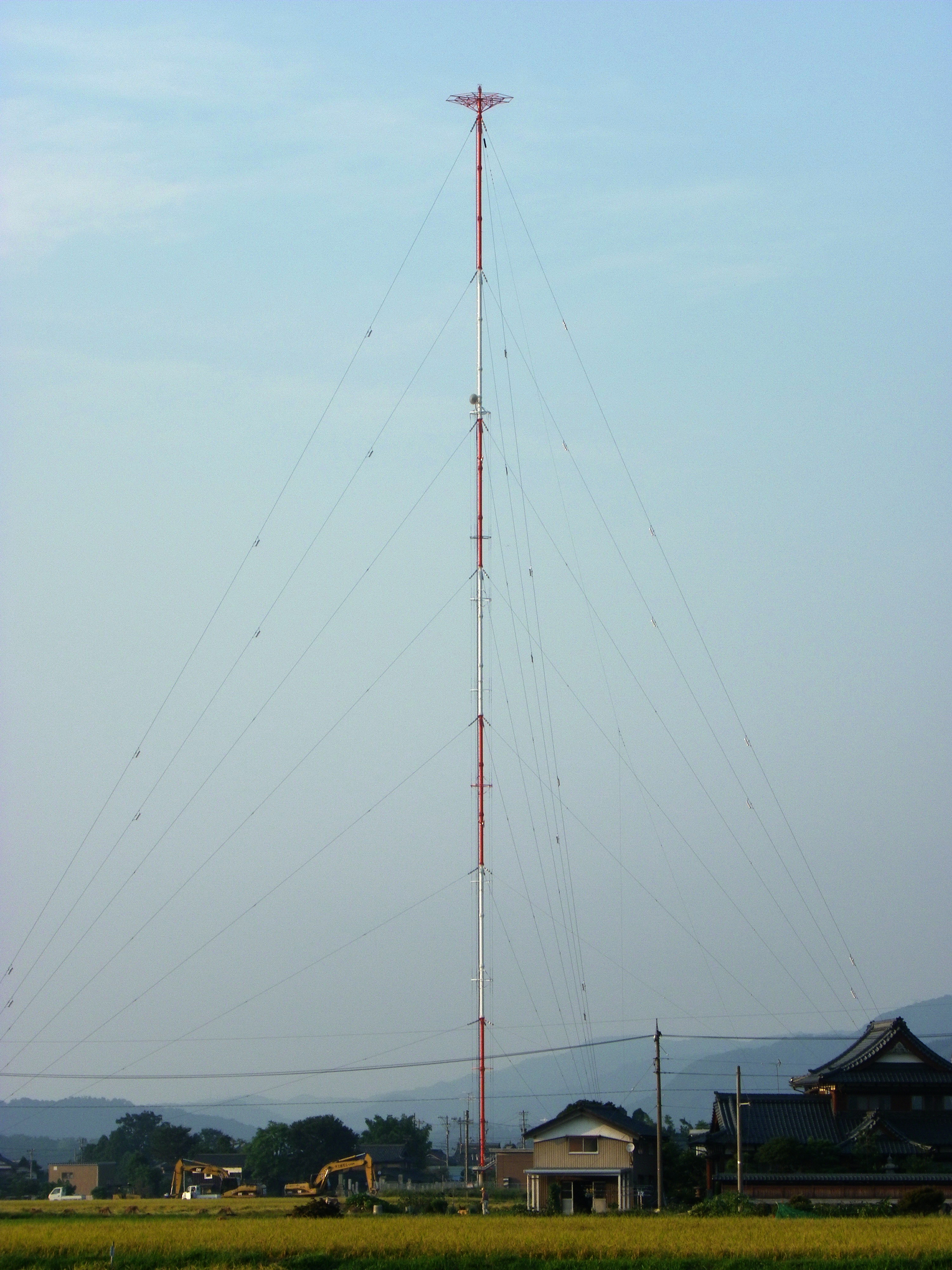 FBC Radio Transmitting Station (JOPR 864kHz 5kW)